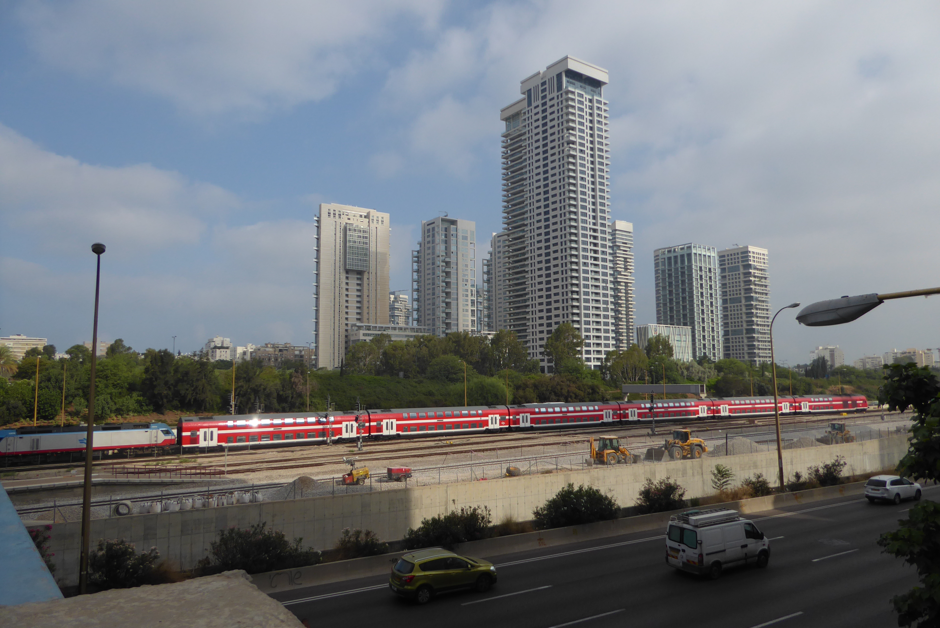 Diamond Exchange District Rmat Gan